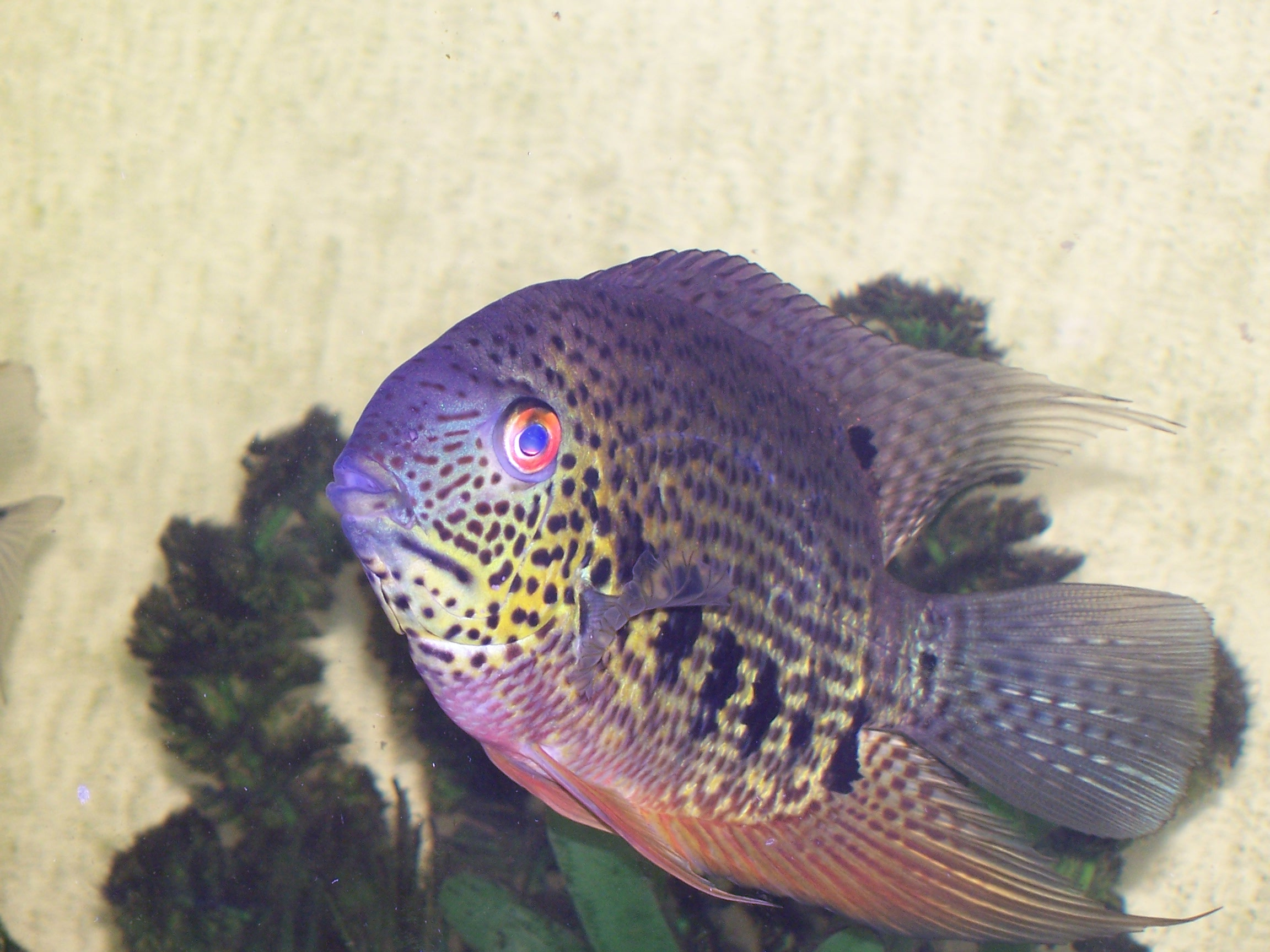 Heros notatus, also known as "spotted severum"